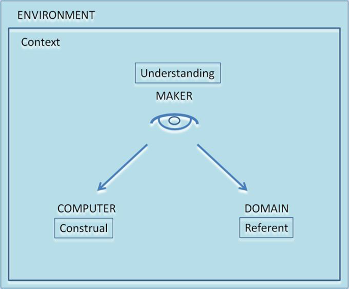 Fundamental diagram for making a construal